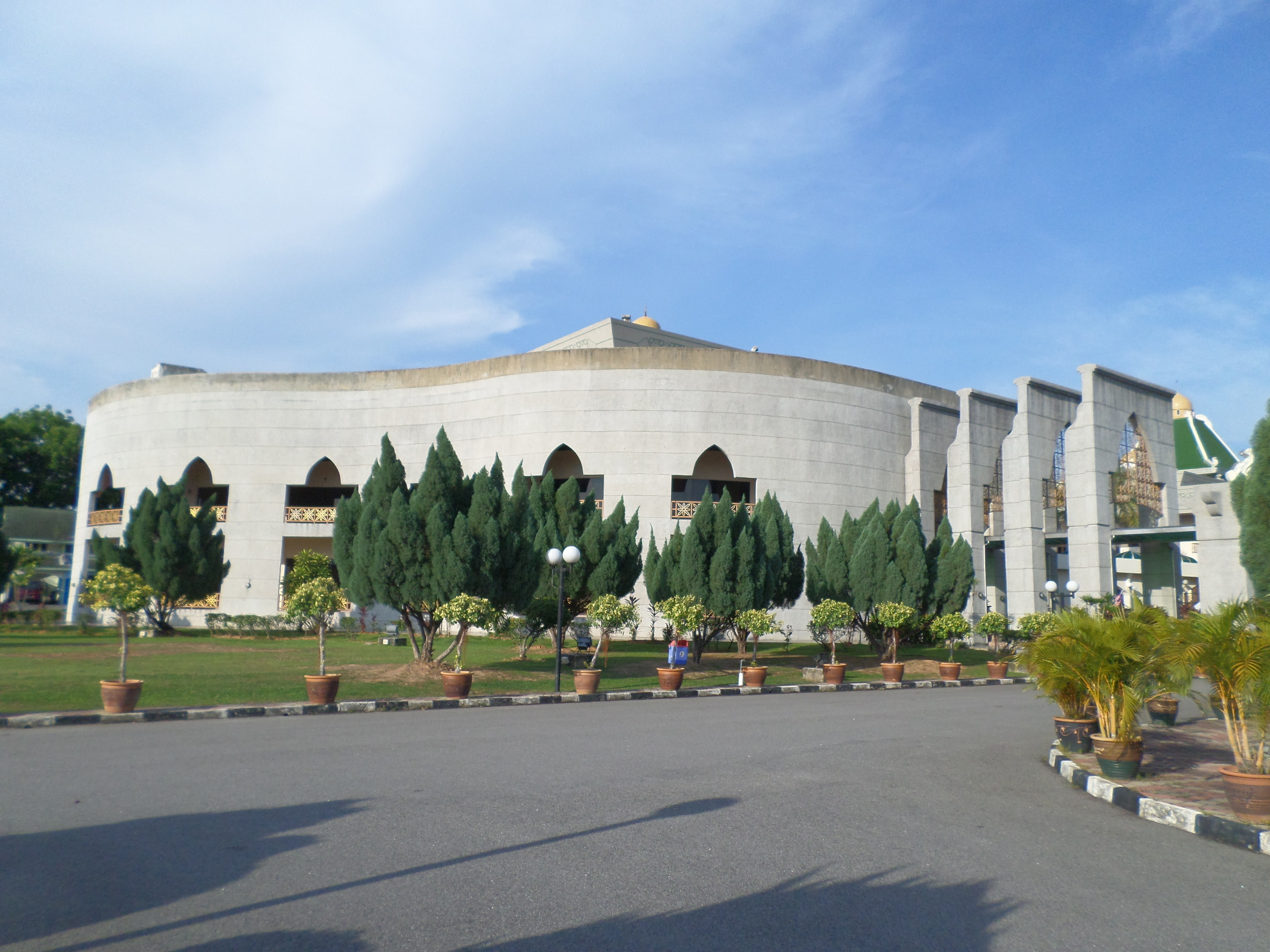 Malacca Al-Quran Museum, Malacca Town, Malacca, MalaysiaBahasa Melayu: Muzium Al-Quran Melaka, Bandaraya Melaka, Melaka, Malaysia